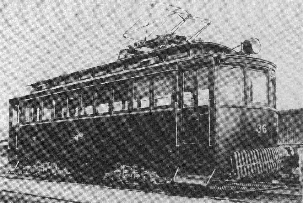 Hankyu #36.